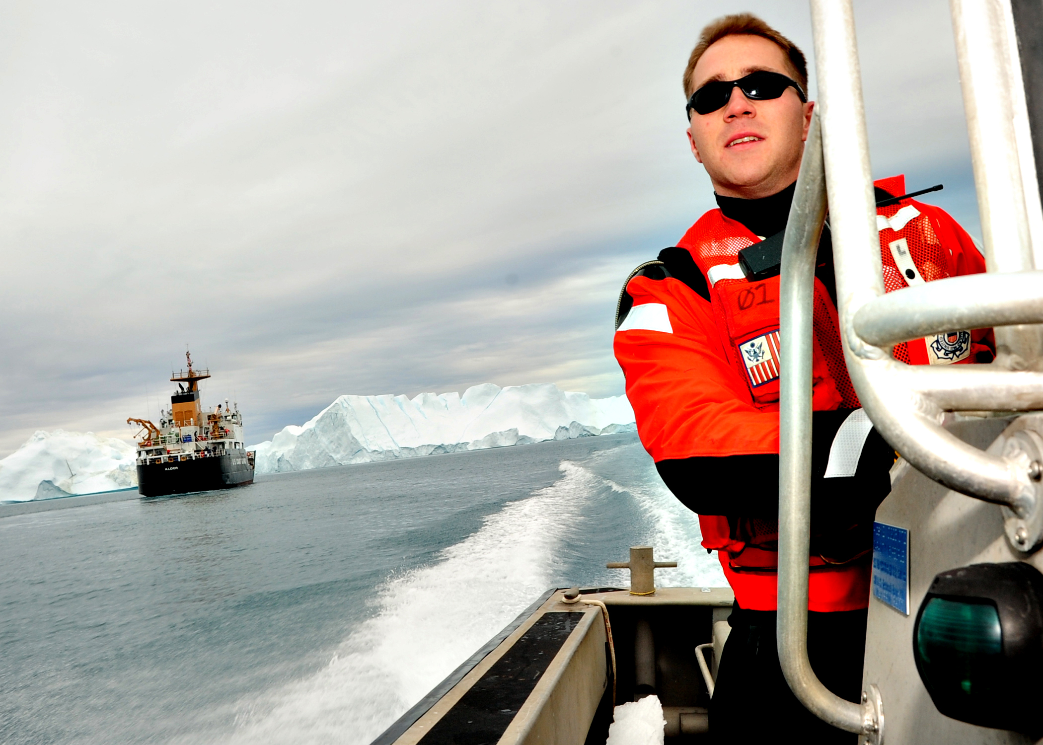 JACOBSHAVN ISFJORD -- Petty Officer 1st Class Michael Thayer, a boatswain's mate, pilots U.S. Coast Guard Cutter Alder's small boat past an iceberg field, above the Arctic Circle, while Alder steams south along Greenland's western coast, August 22, 2010. Alder is underway as part of Operation Nanook, one of three major operations conducted per year in the Canadian Arctic, designed to demonstrate international cooperation and expand the international ability to respond to emergencies in the Arctic. (U.S. Coast Guard photo by Petty Officer 3rd Class George Degener).